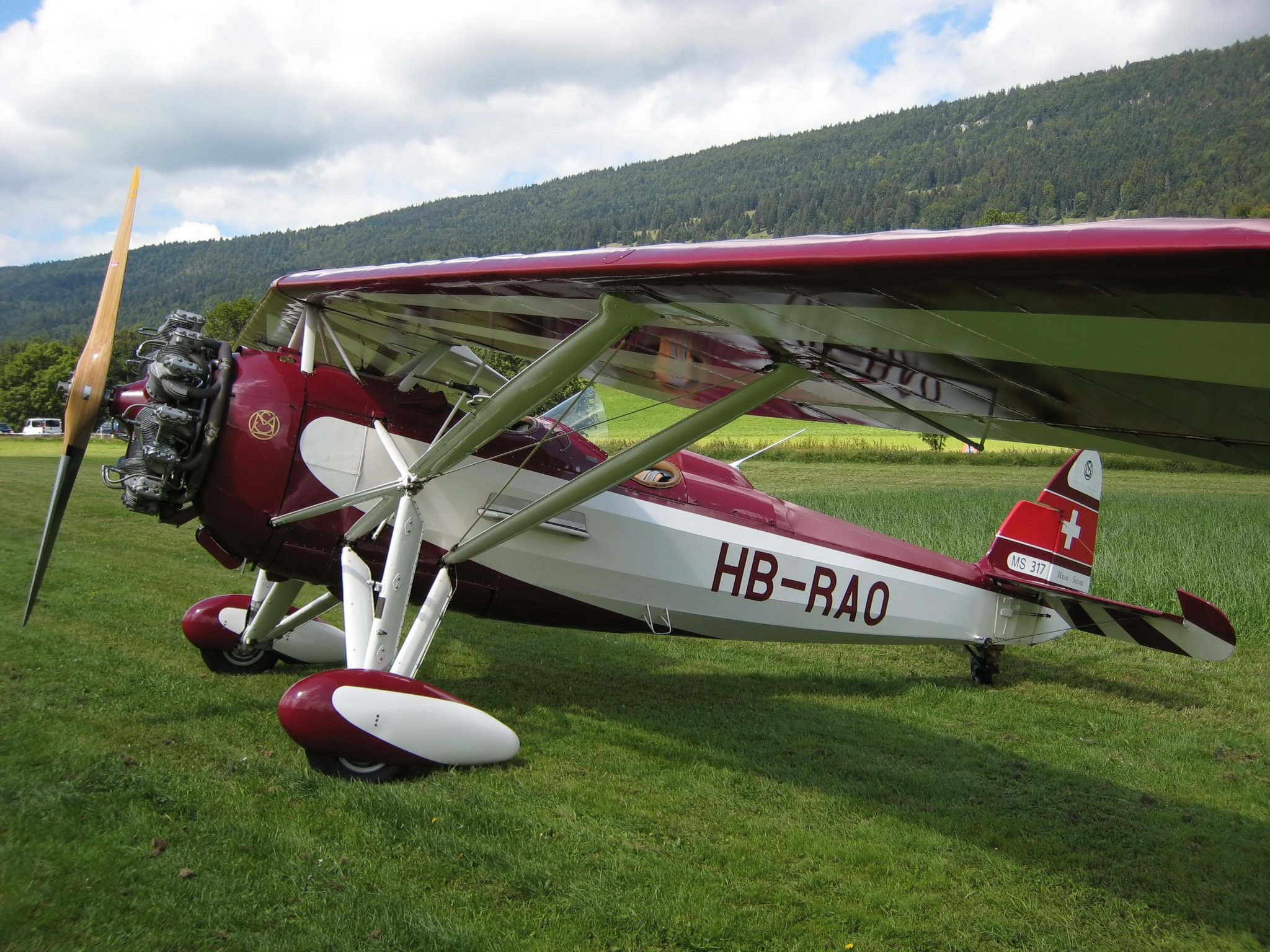 Morane-Saulnier MS.317 training monoplane (1932)